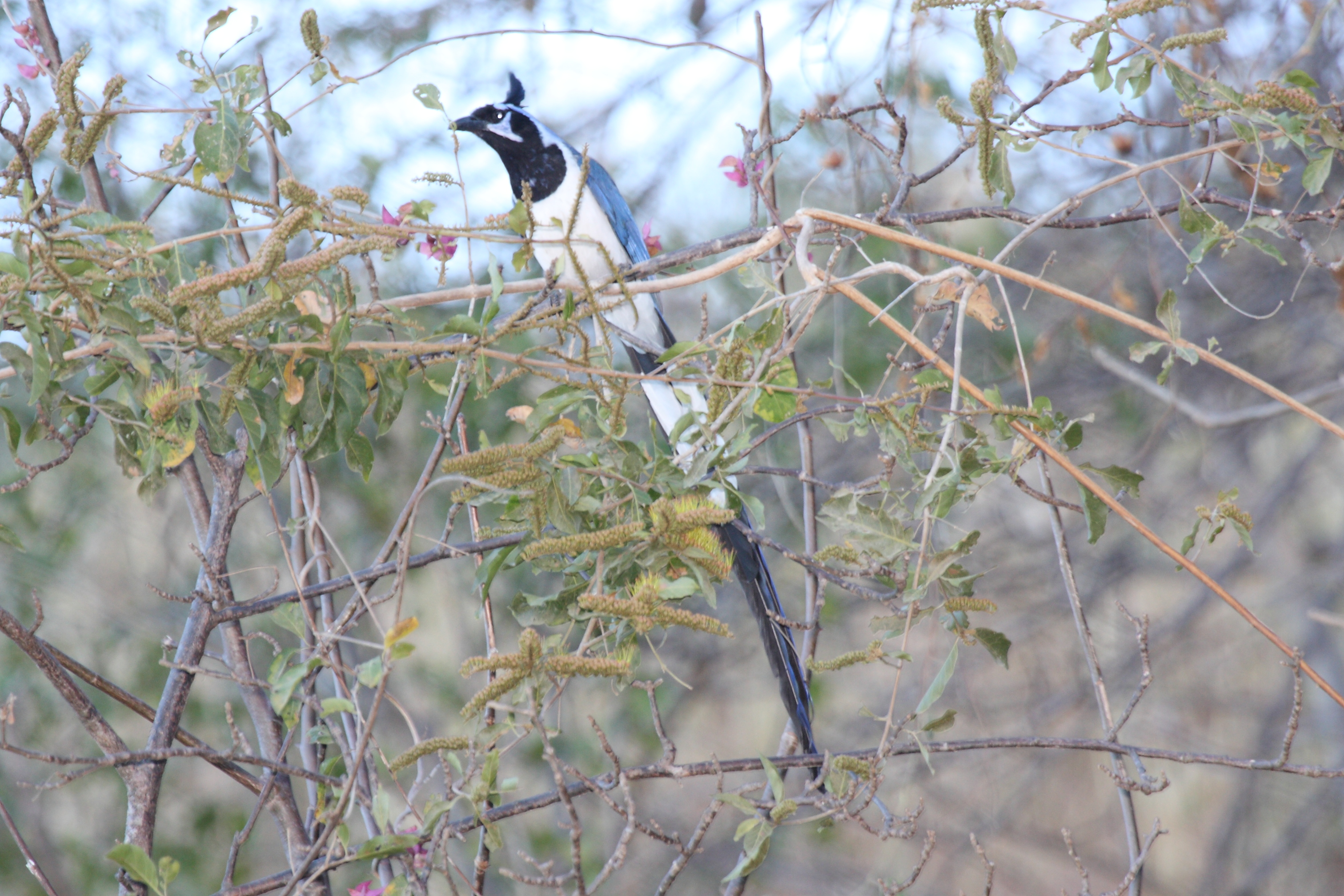 Black-throated Magpie-jay (Calocitta colliei)